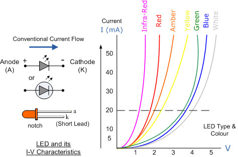 Karakteristikat e LED diodave